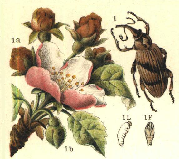 kind of beetle, living on apple trees